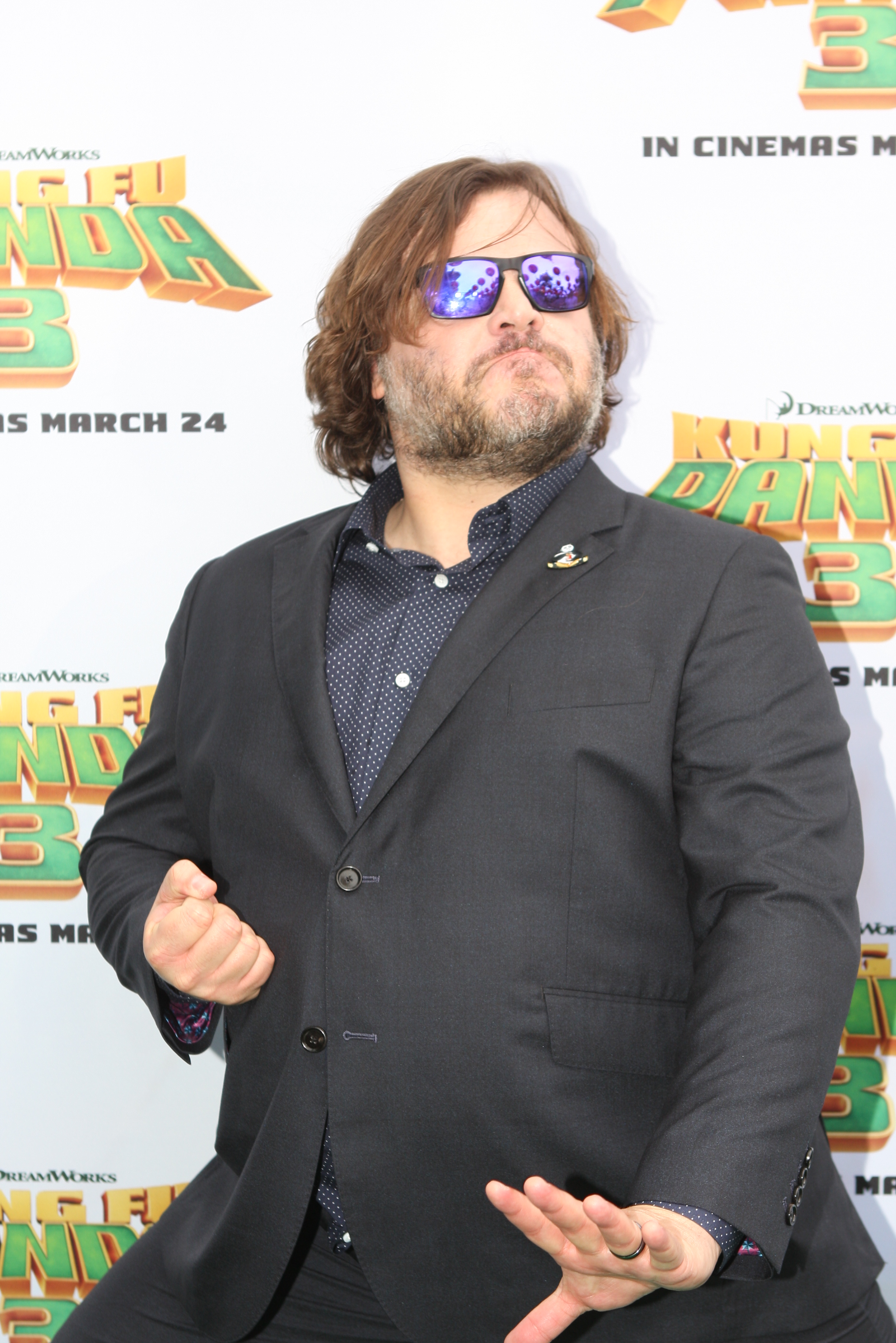 Jack Black